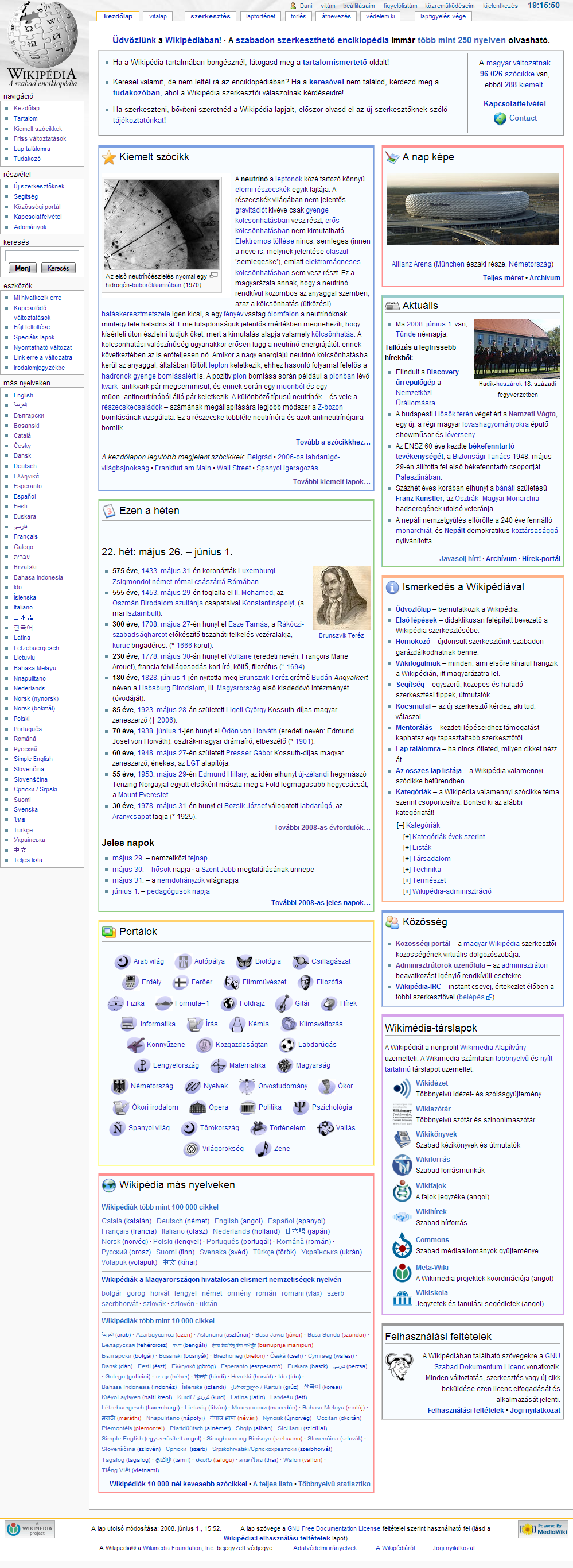 Fourth version of the Hungarian Wikipedia's Main page, Kezdőlap